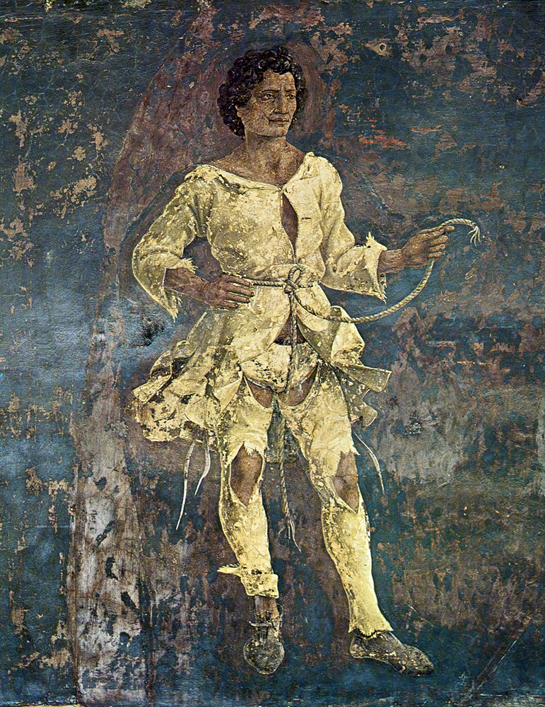 various Ferrarese artist Allegory of March Fresco Palazzo Schifanoia, Ferrara